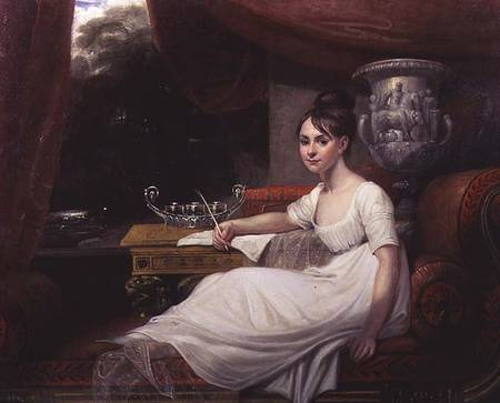 Portrait of Eleanor Anne Porden, on a chaise-longue